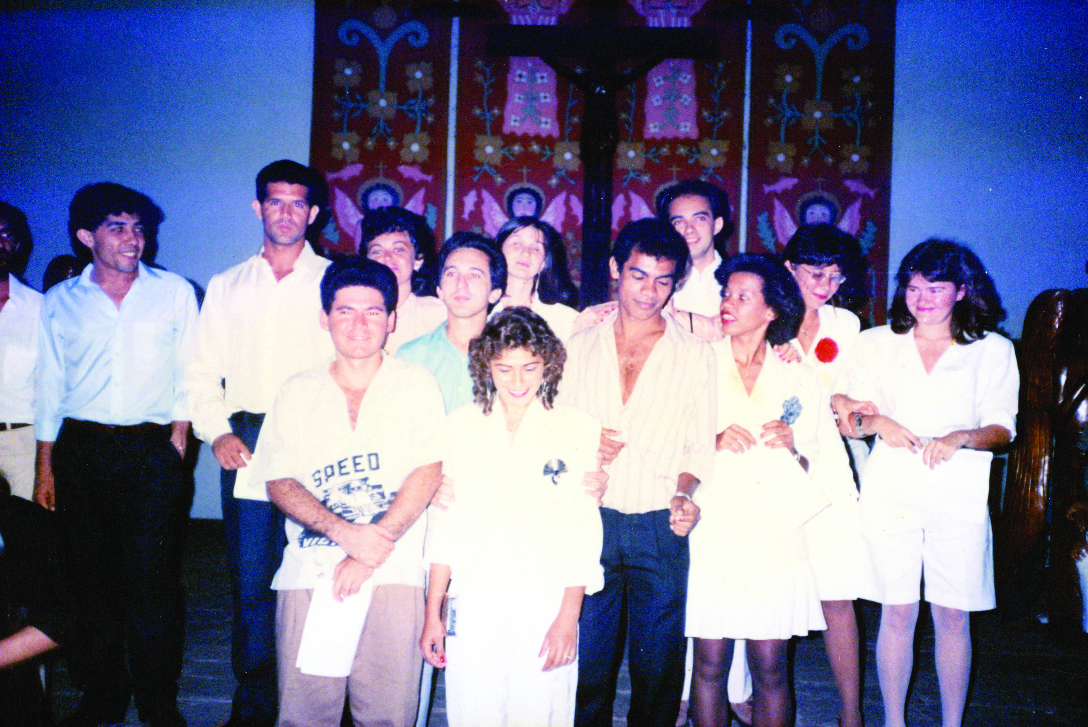 Igreja Nossa senhora de Lourdes